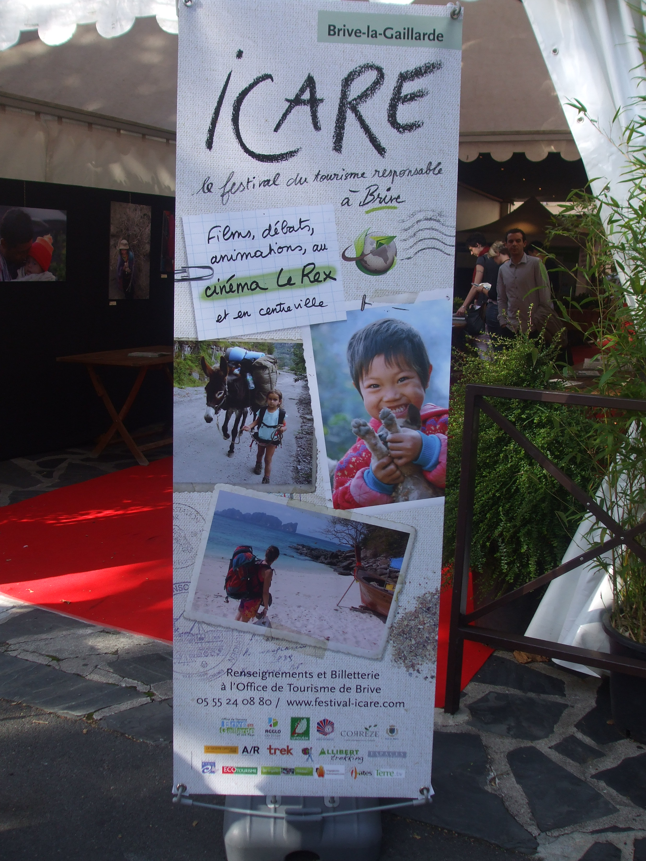 Poster of the Responsible Tourism Festival Icare, Cinema Rex, Brive la Gaillarde, 2010 10 09